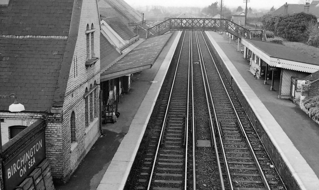 Birchington-on-Sea Station. View westwards, towards Faversham, Chatham and London; ex-LC&D London - Ramsgate main line (electrified 1959).